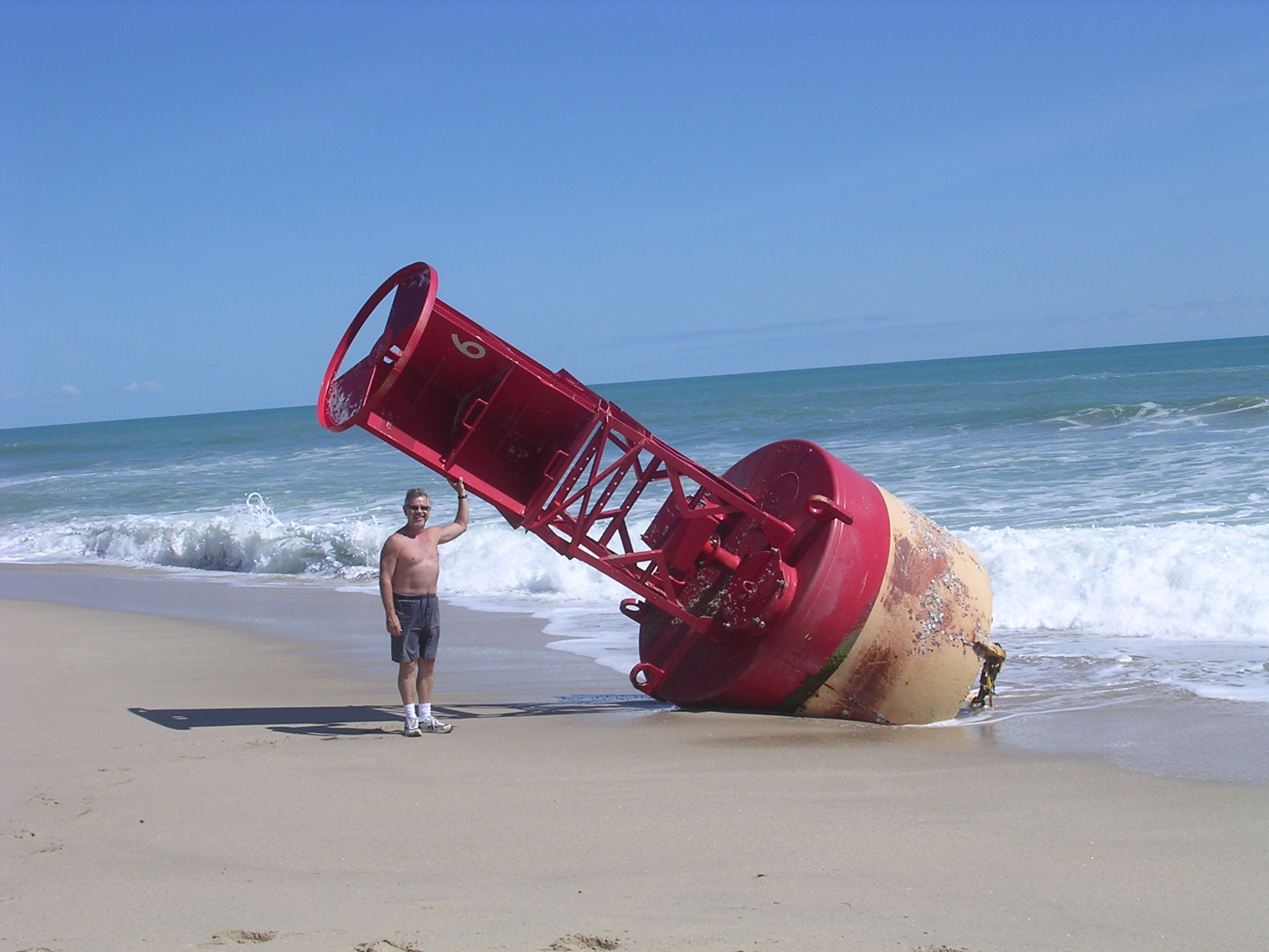 Robert Scully April 11, 2008 Sebastian Inlet State Beach, Bouy # 6 beached. ,6, scully, vero, Indian river, brevard county, buoy, ocean, atlantic, sea, marker, aid to navigation, uscg, vbps